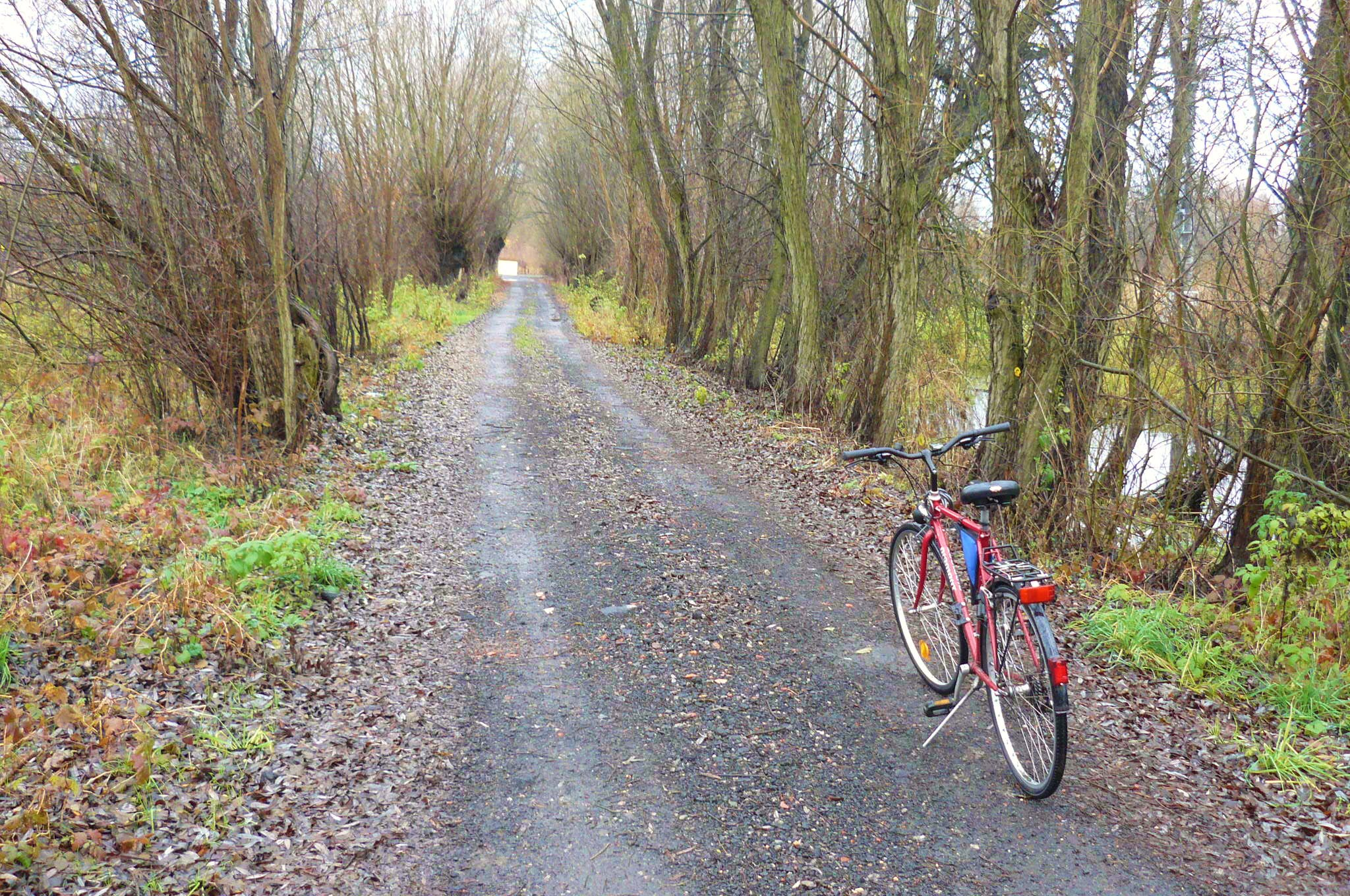 Nadwarciański Bike Route, Nadwarciańska Street, Poznań, Poland.